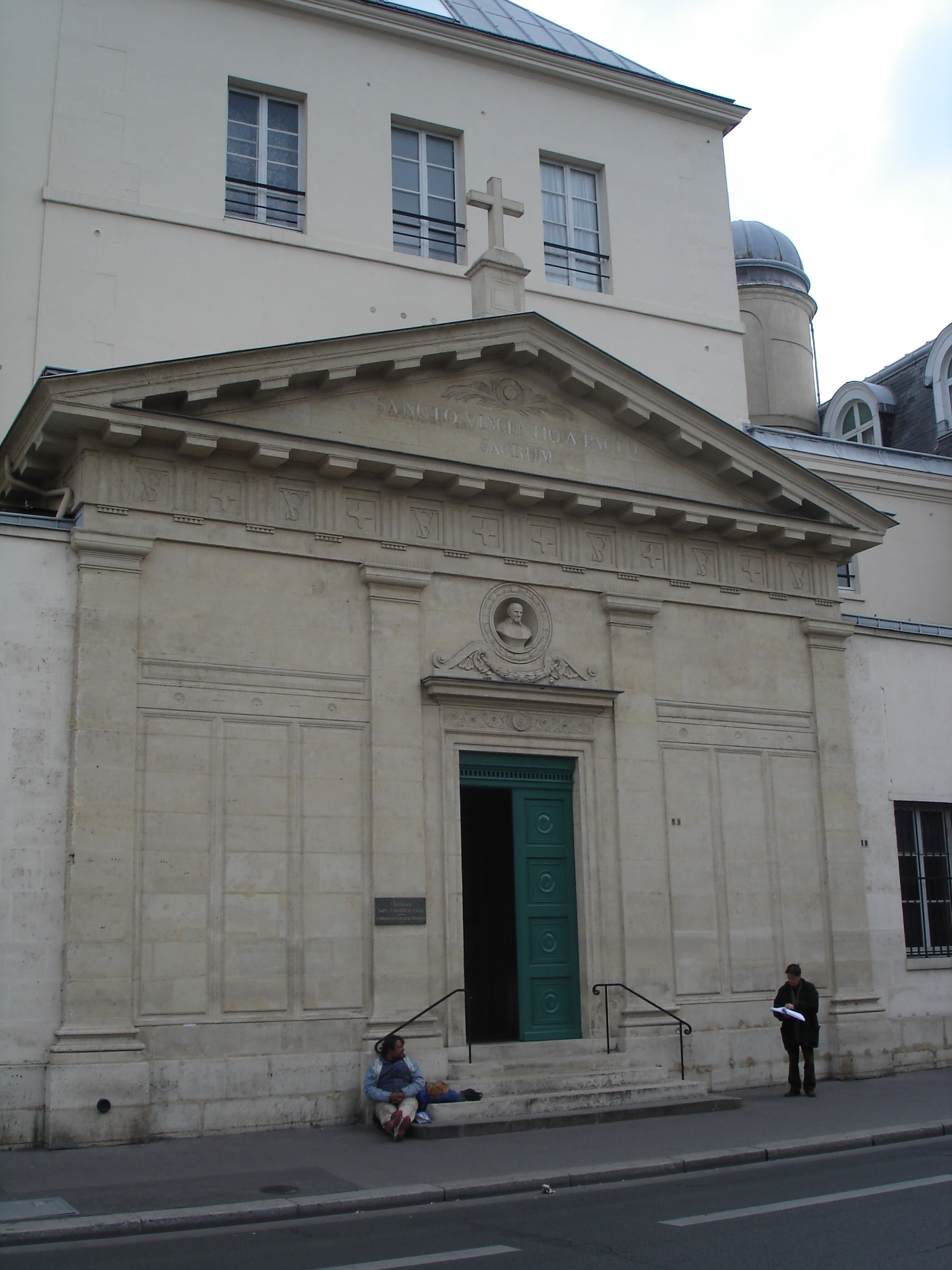 Front of the Chapelle Saint-Vincent de Paul in Paris